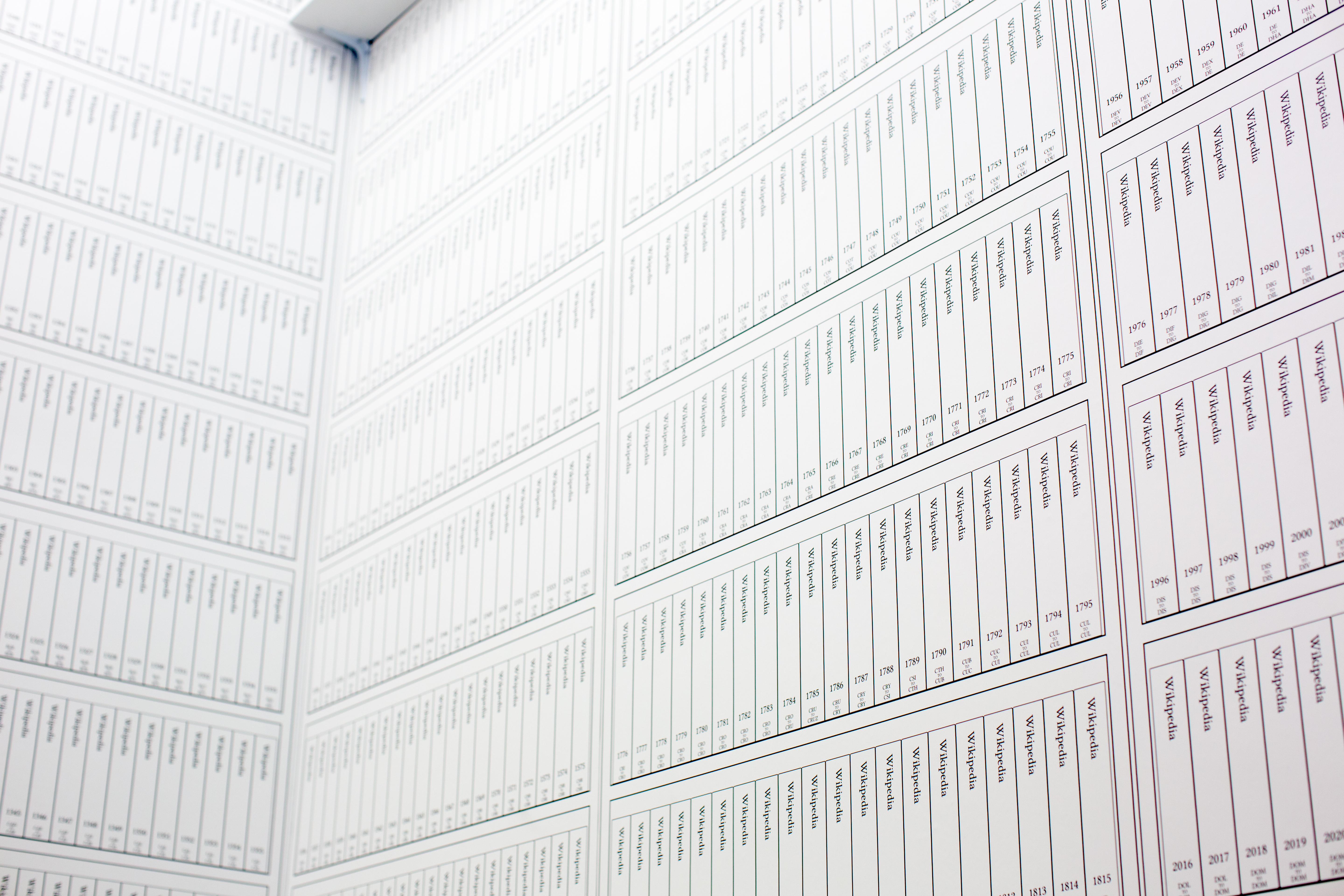 Print Wikipedia by Michael Mandiberg, NYC June 18, 2015 Derivative work CC By-SA 3.0 2015, Wikipedia contributors and Michael Mandiberg User:Theredproject